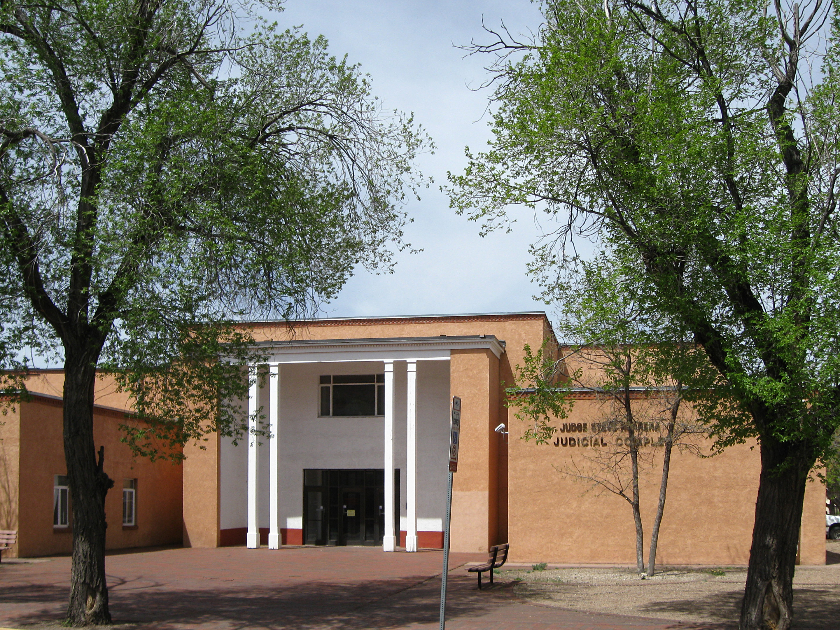 Judge Steve Herrera Judicial Complex, located at 100 Catron Street in Santa Fe, New Mexico.